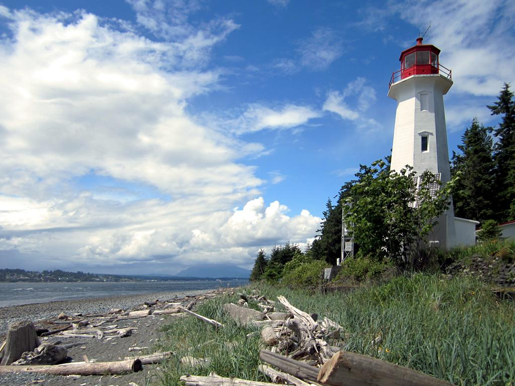 Cape Mudge Lighthouse (1916) on Quadra Island, British Columbia, Canada, overlooks the southern entrance to Discovery Channel.